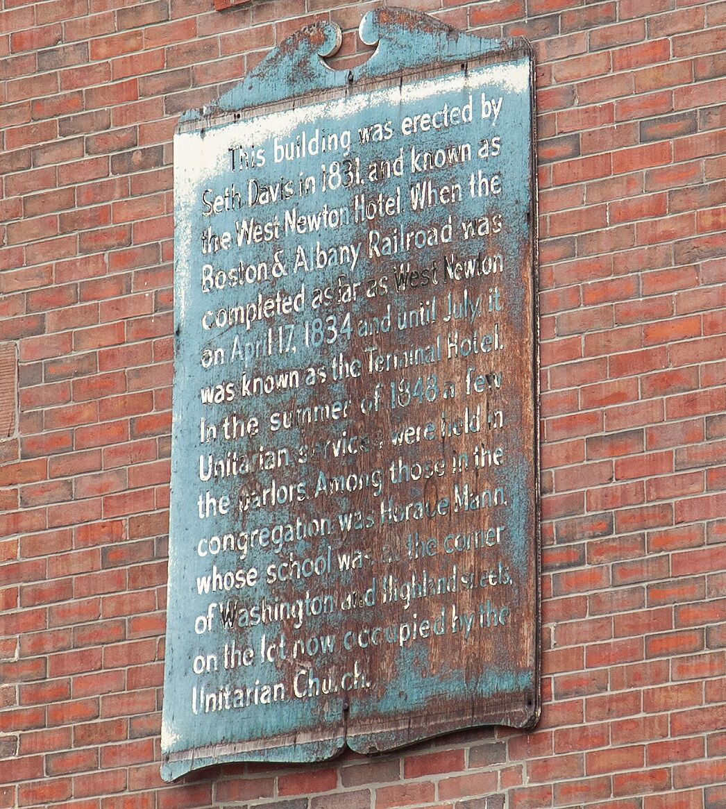 Sign on the second floor of the Railroad Hotel, documenting the meeting to found the Unitarian Society in Newton and the presence of Horace Mann at that meeting